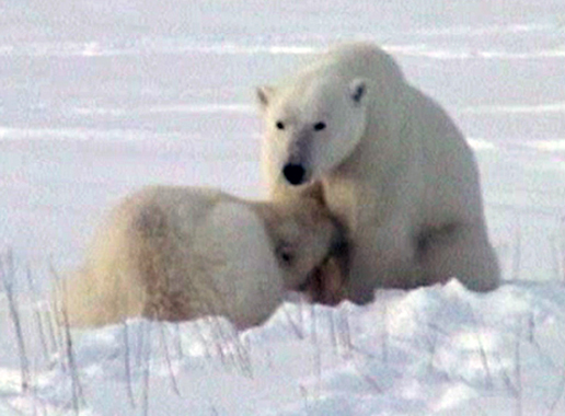 Polar bear, Ursus maritimus is nursing a cub Churchill. The image is a frame from the video I took.